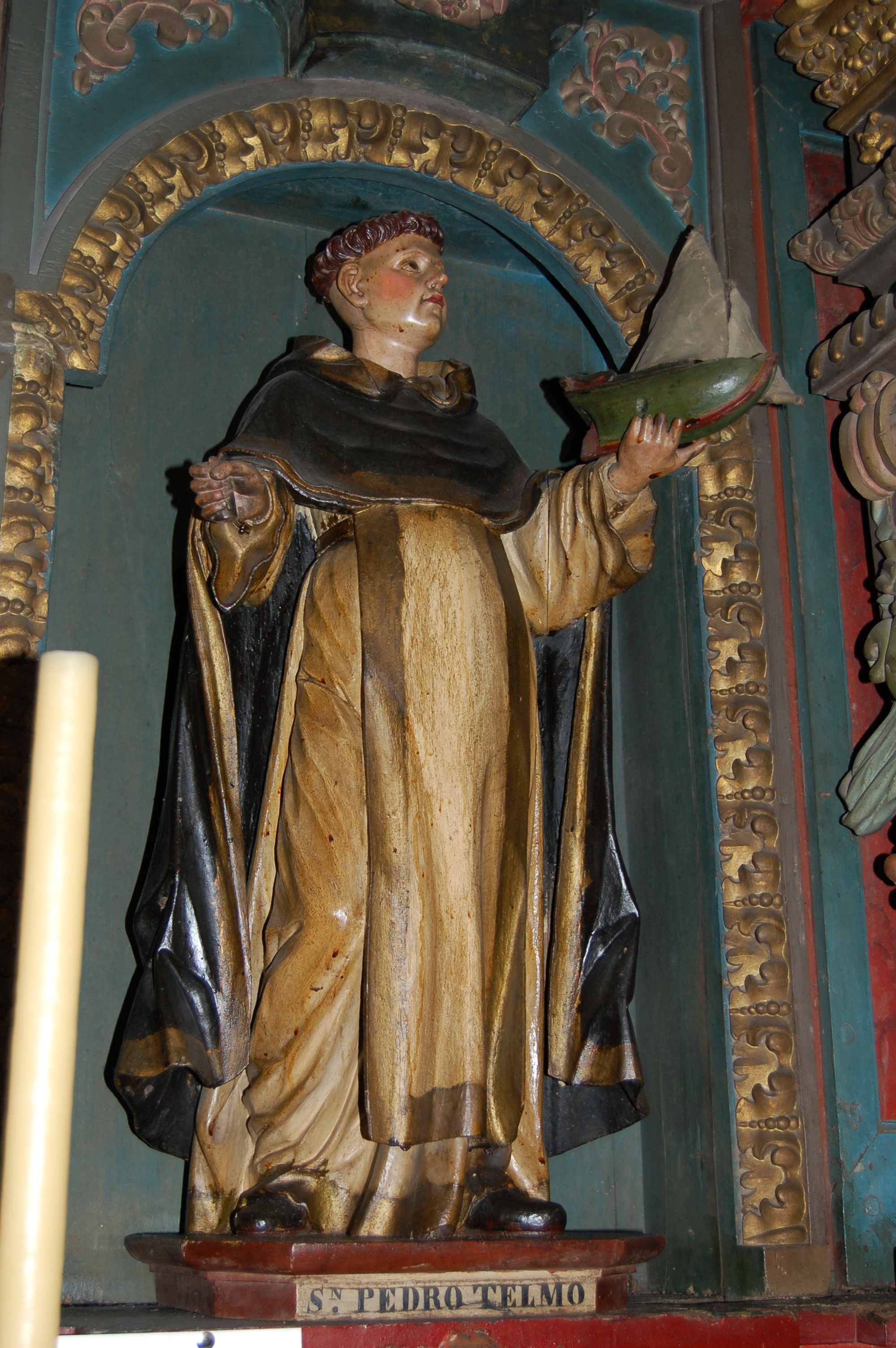 San Telmo na igrexa de San Caetano de Santiago de Compostela